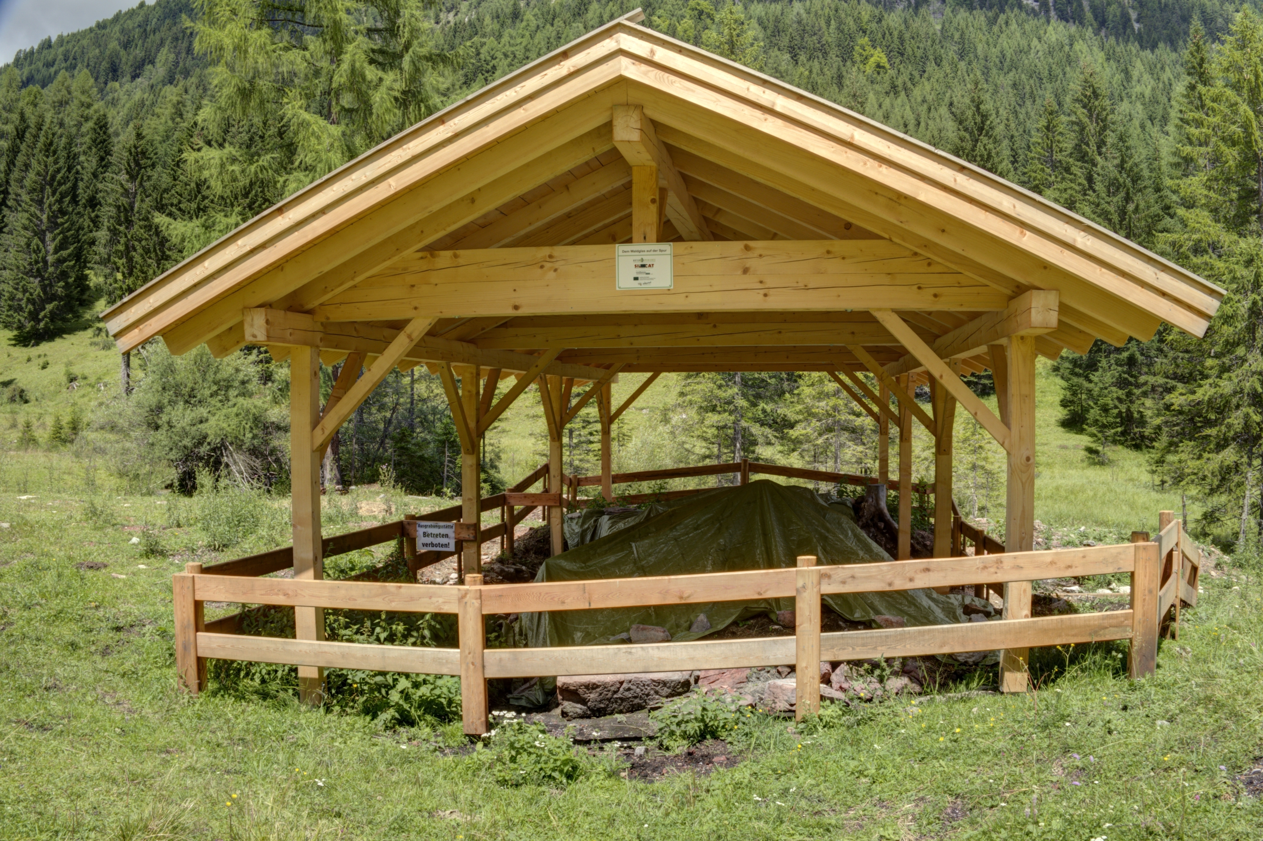 Excavation of the remains of walls of a former glass furnace in the former village glassblower Tscherniheim, a place of Forest glass production from 1621 to 1879 in the municipality Hermagor-Pressegger See in Carinthia / Austria / EU.